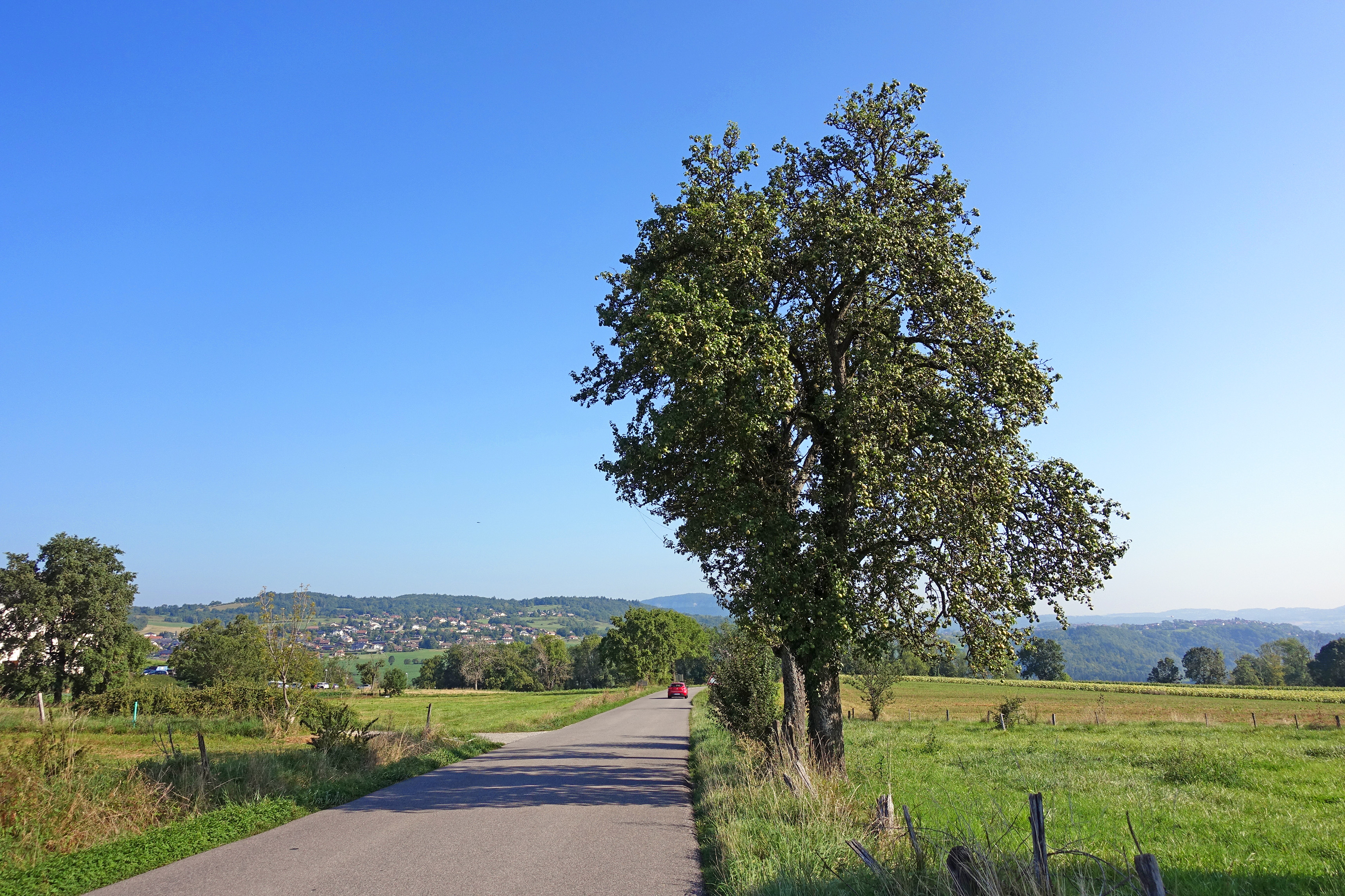 Route des Gorges du Fier in Chavanod, France.